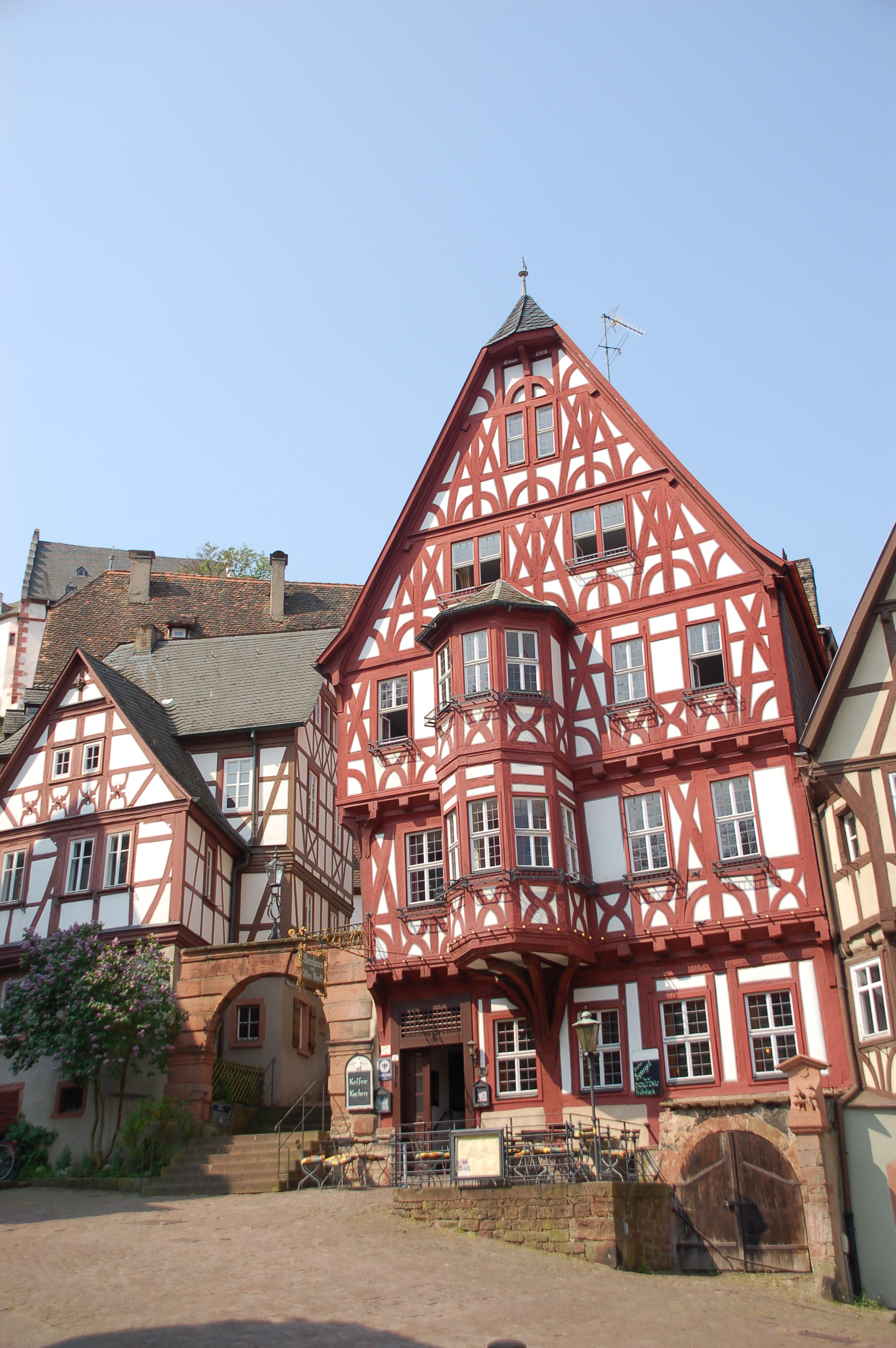 The Schnatterloch (chatter hole) in Miltenberg